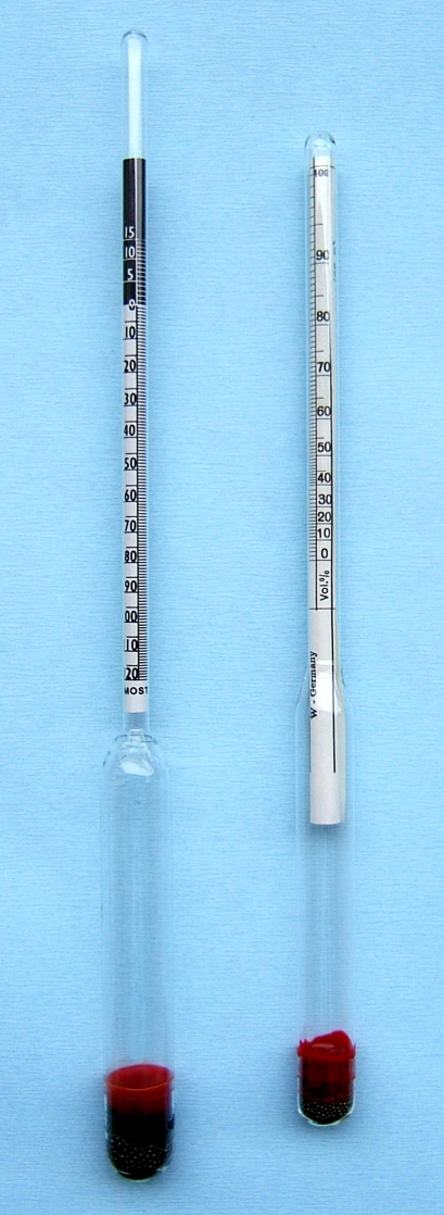 A hydrometer for wine-brewing and an alcometer.